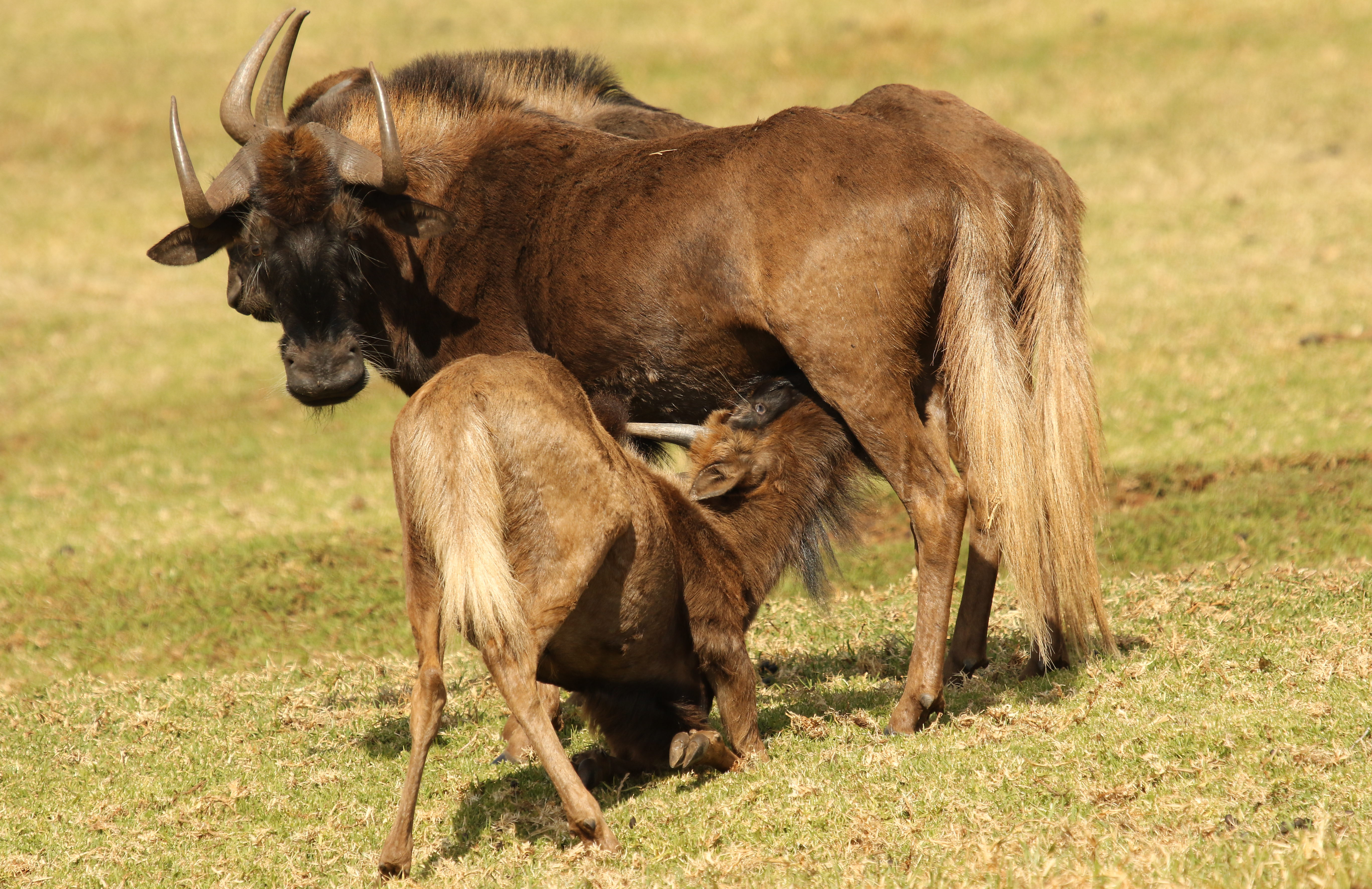 Black wildebeest, or white-tailed gnu, Connochaetes gnou at Krugersdorp Game Reserve, Gauteng, South Africa